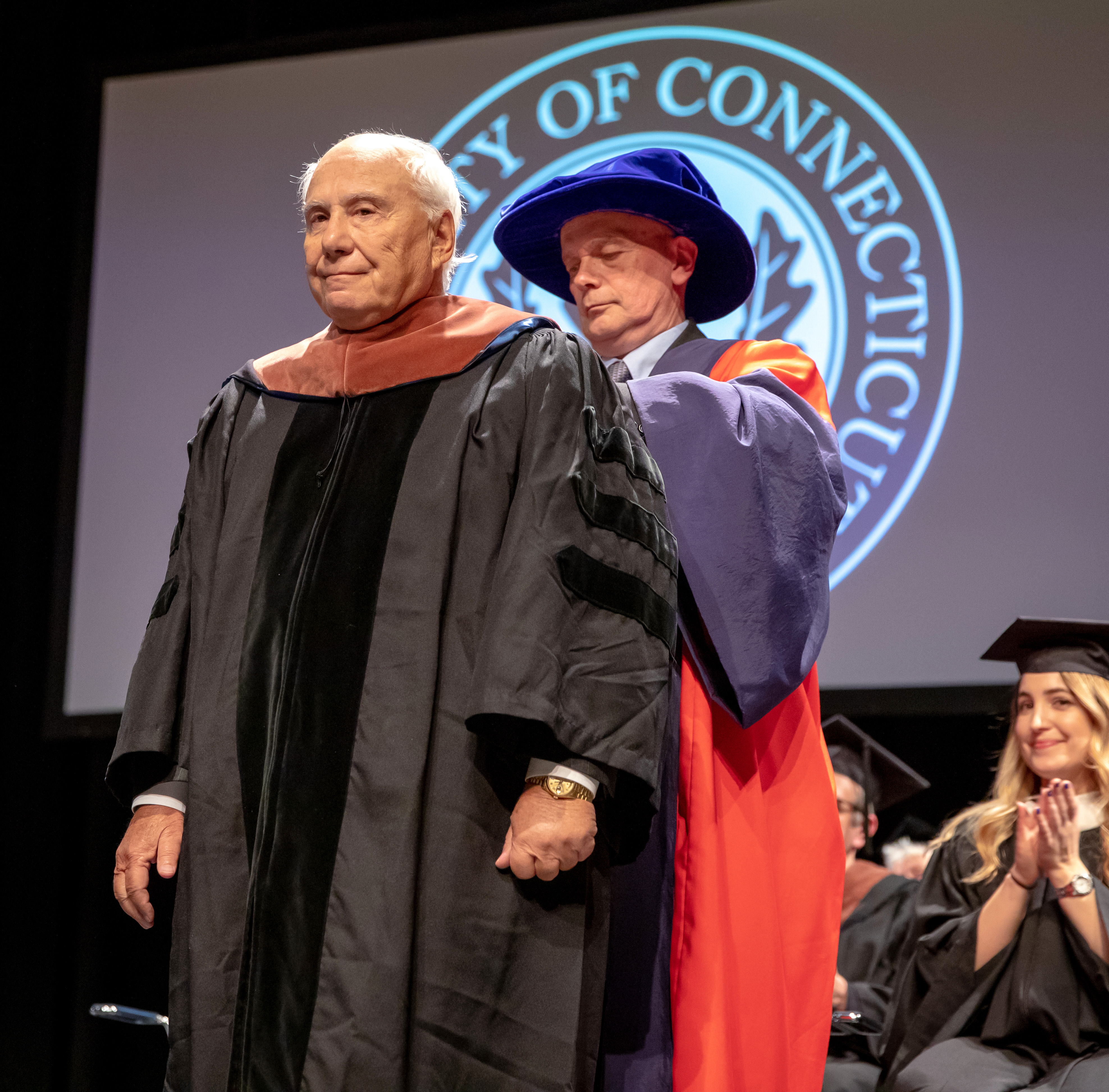 Richard Lublin (left) Photos from the Spring Commencement ceremony for the UConn School of Business taken Sunday, May 12, 2019 at the Gampel Pavilion in Storrs. (G.J. McCarthy / UConn Foundation)